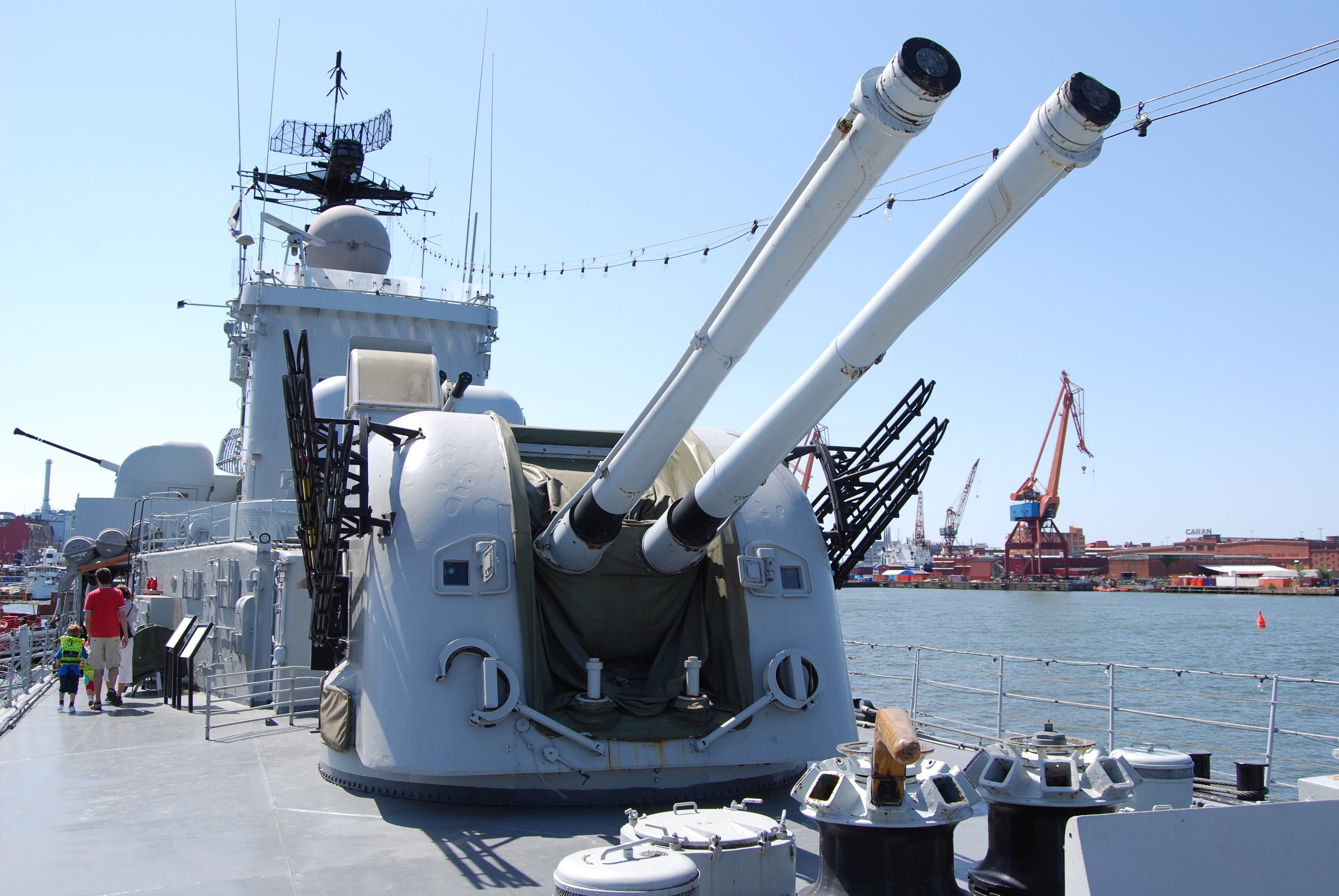 The forward 120 mm turret on the Swedish destroyer HMS Småland.